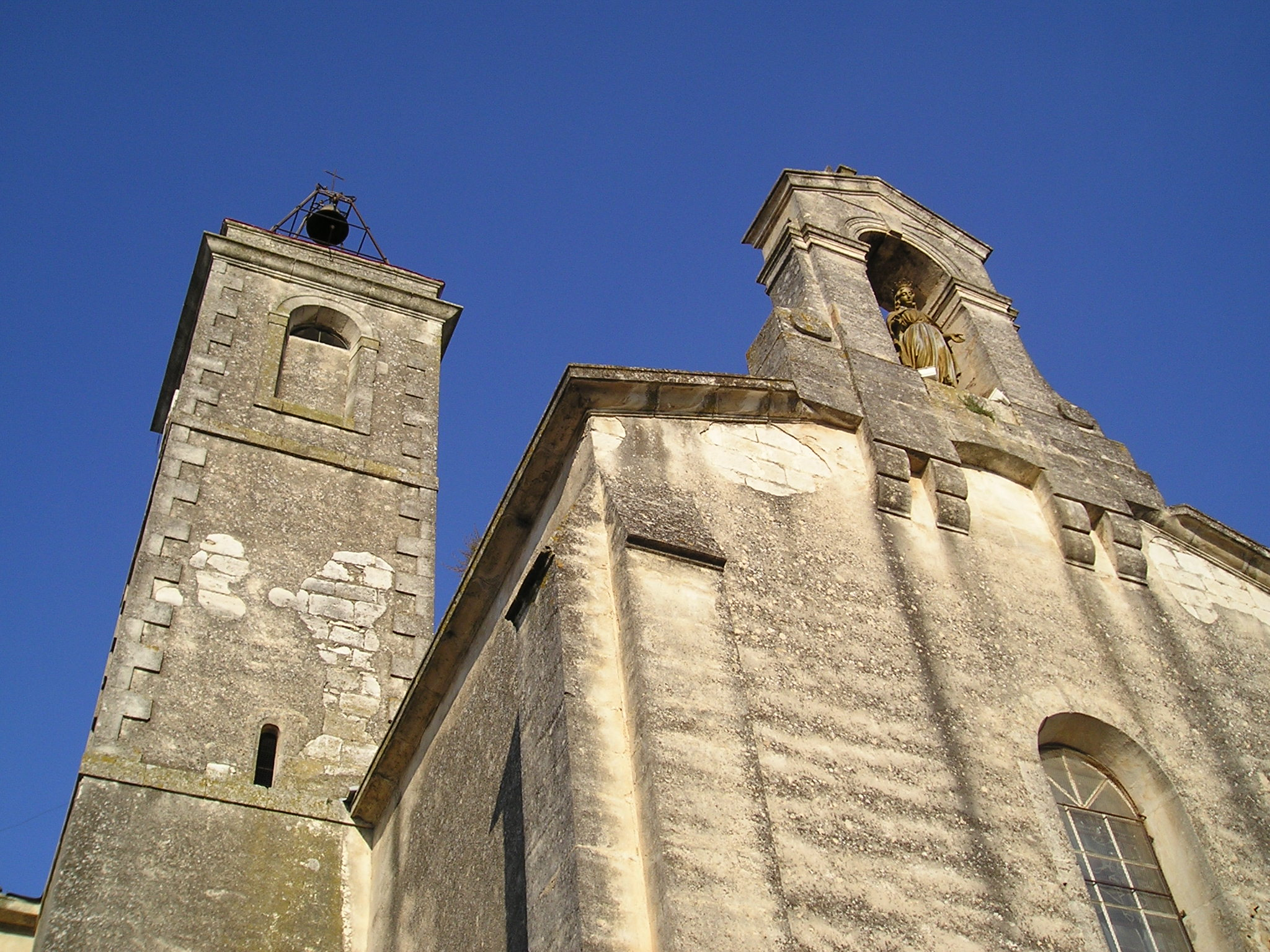 In Hérault, France, the front of the church of Galargues, the bell tower and a statue of the Mary (?)